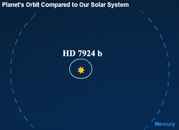 Super-Earth HD 7924 b's orbit compared to Mercury's orbit (0.38AU) in our Solar System.